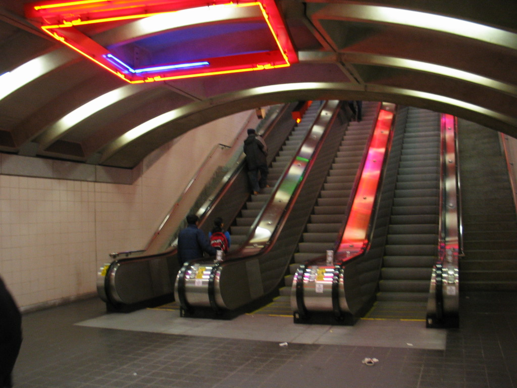 Escalators between the tracks and station entrance at Exchange Place Station. Jersey City, NJ; the neon fixture is by Stephen Antonakos.